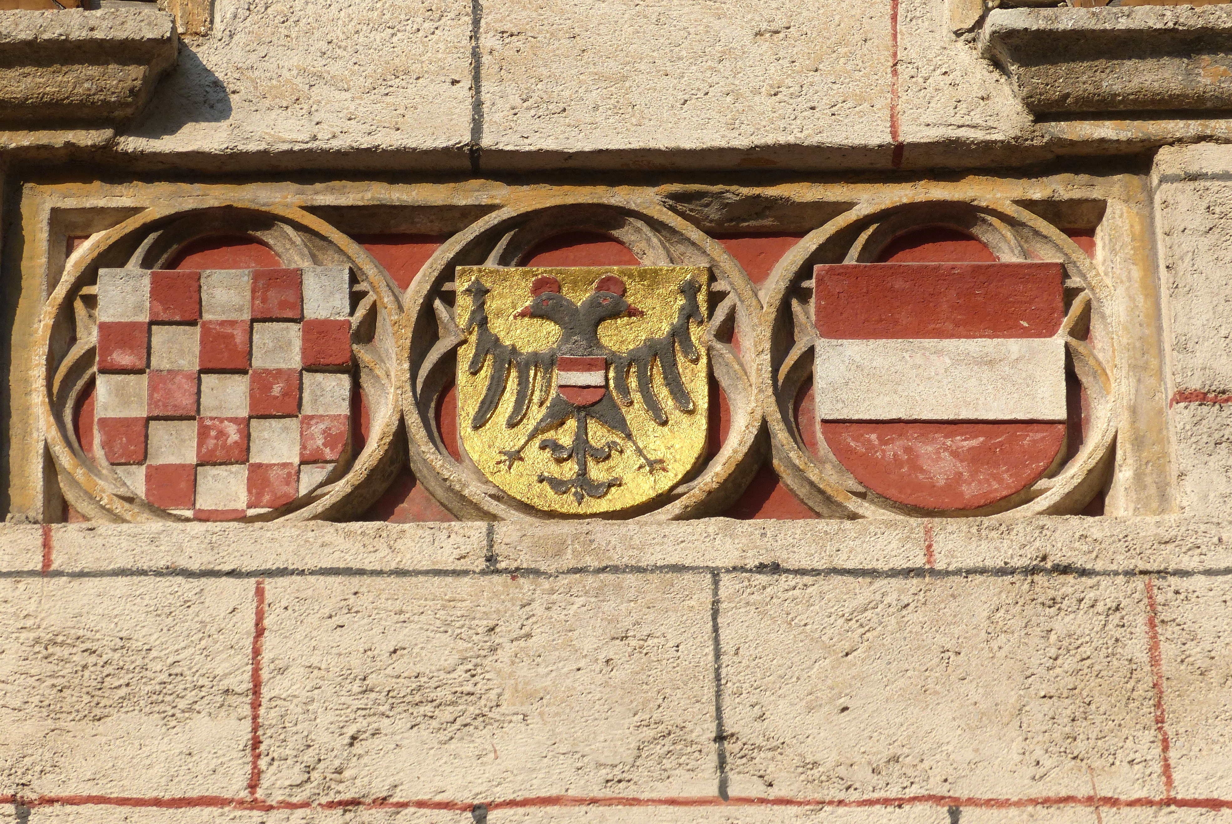 Mödling ( Lower Austria ). Ducal court - Coats of arms of the duchy of Troppau, the Holy Roman Empire and Austria ( 1493 )